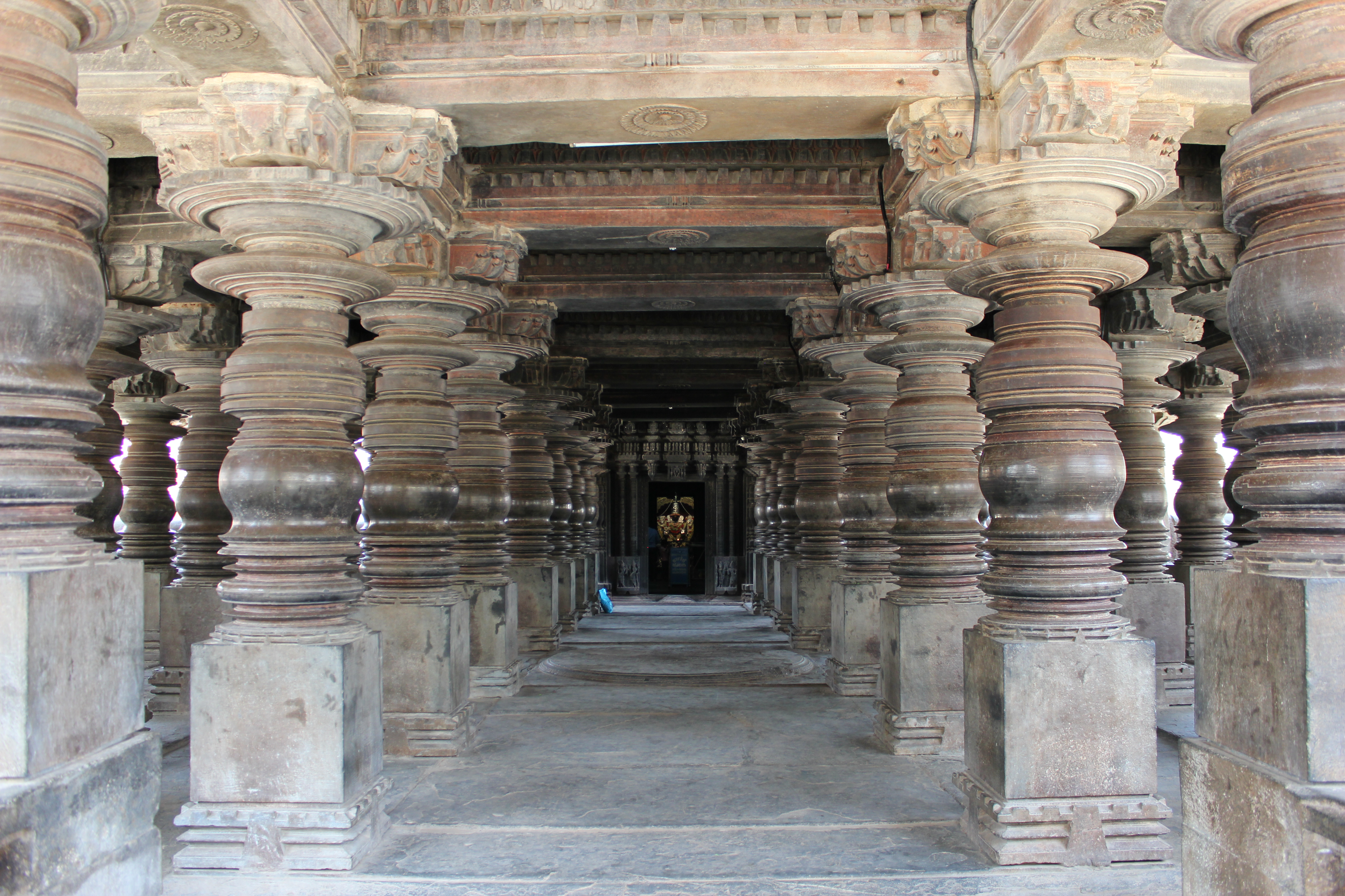 This photograph was taken by me in Harihar, Davangere district, Karnataka state, India. The Harihareshwara Temple at Harihar in was built in c.1223–1224 CE by Polalva, a commander and minister of the Hoysala Empire King Vira Narasimha II.